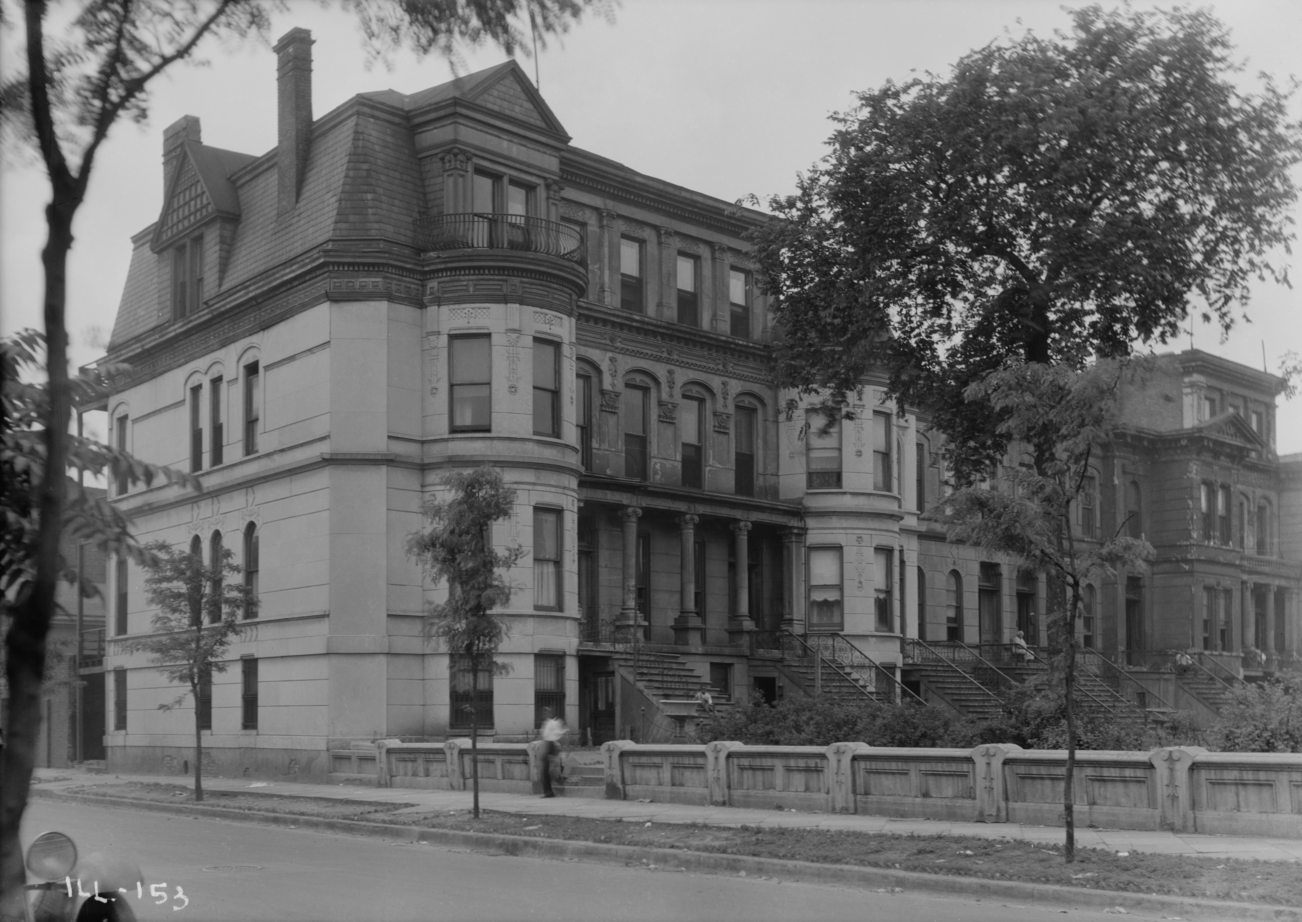 A portion of Aldine Square in Chicago depicted in August 1935. Made as part of the Historic American Building Survey.